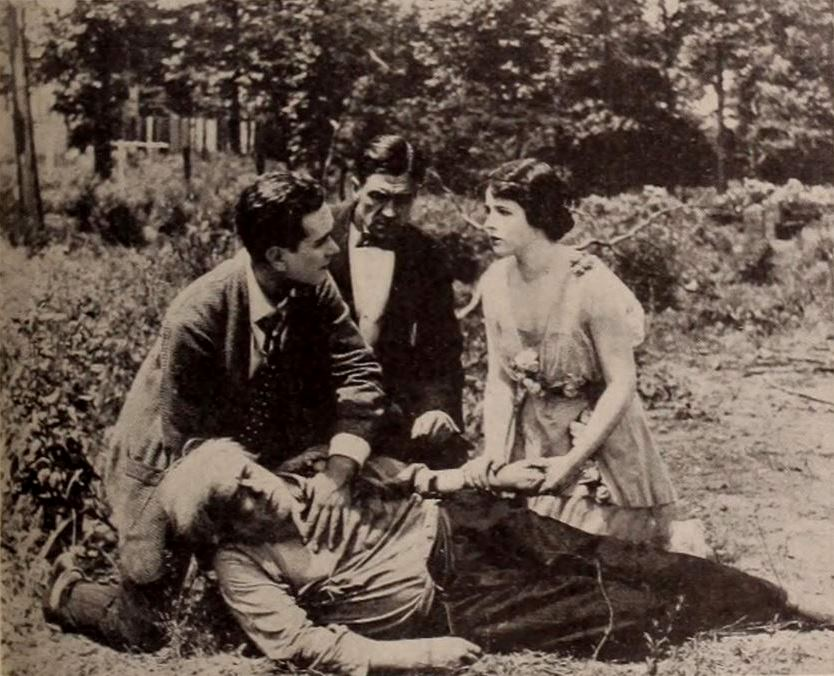 Still from the American drama film Daughter of Maryland (1917) with Carlton Brickert, Edna Goodrich, William T. Carleton (laying on ground), and an unidentified actor, on page 33 of the November 3, 1917 Exhibitors Herald.